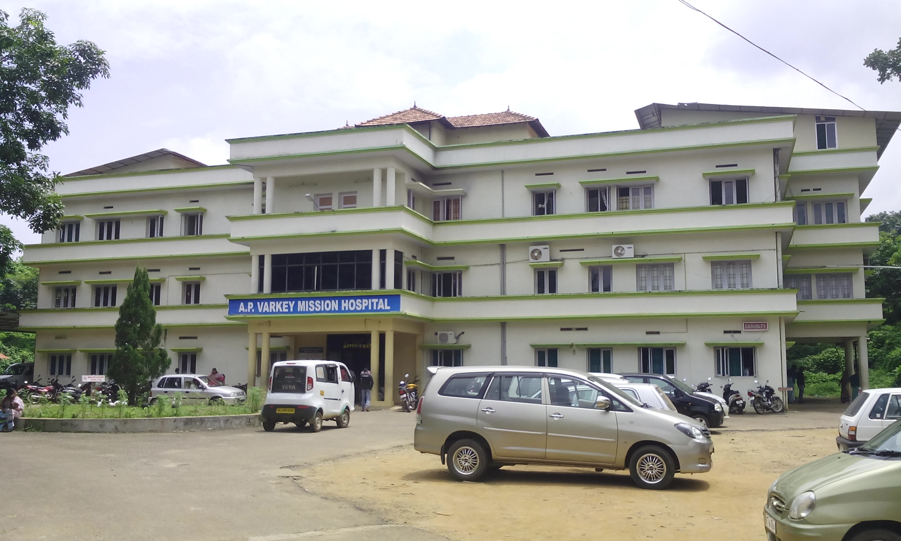 A P Varkey Mission Hospital